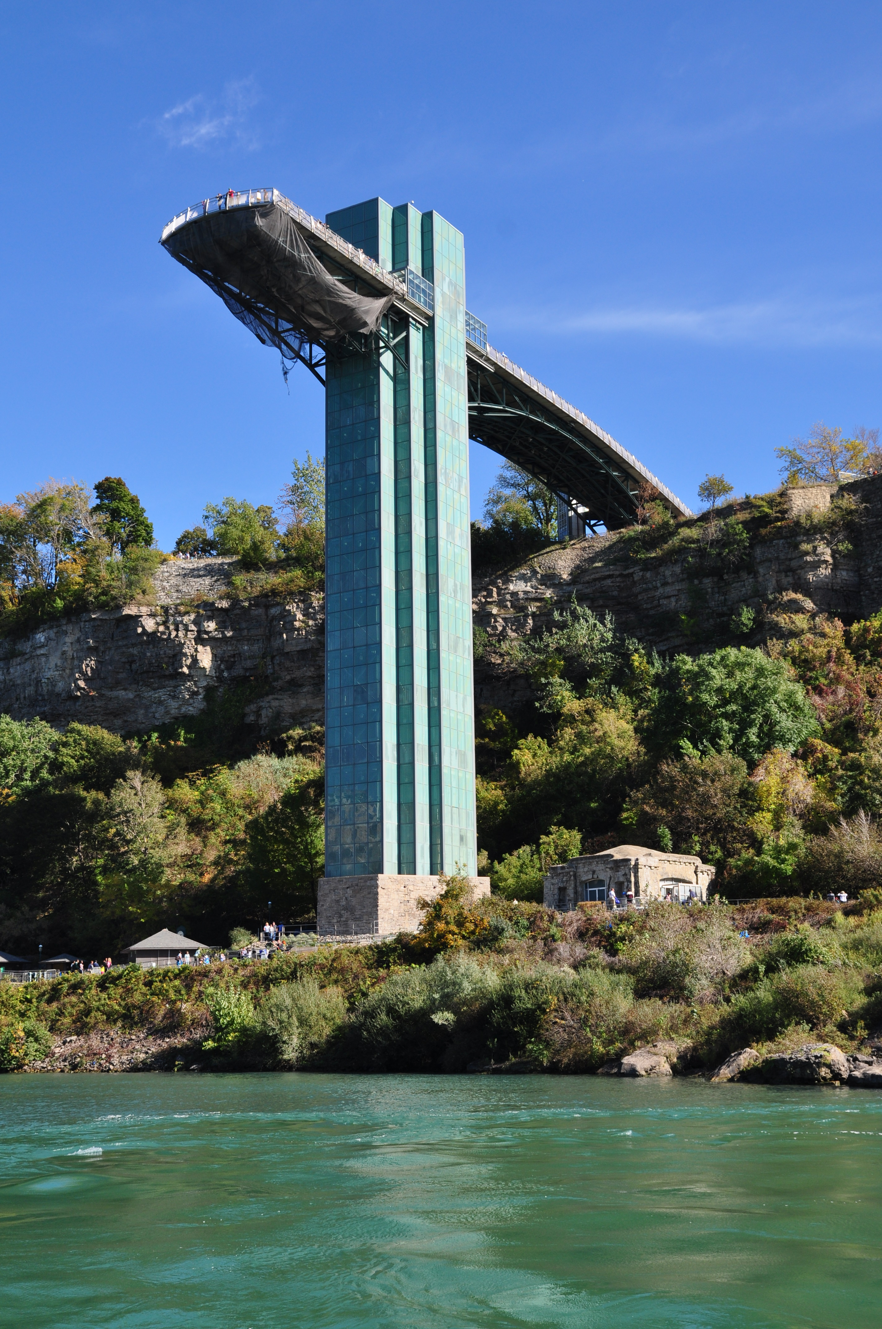 Niagara Falls Prospect Point Park observation tower, on U.S. side